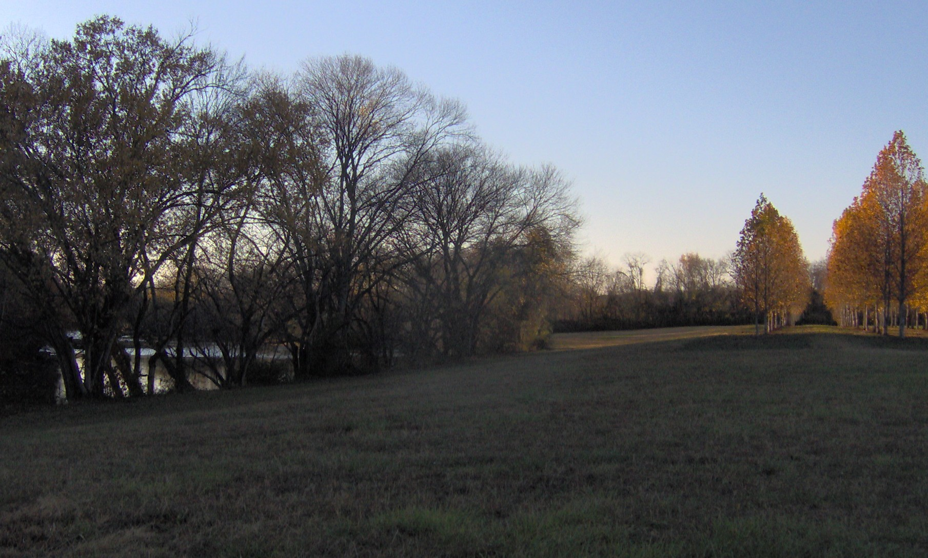 The approximate site of the ancient Cherokee town of Great Hiwassee (also called Hiwassee Old Town) along US-411 near Etowah, Tennessee, in the Southeastern United States. The Hiwassee River is on the left. This photo was taken from beneath the bridge that crosses the river. The site is now part of a Tennessee Division of Forestry nursery.